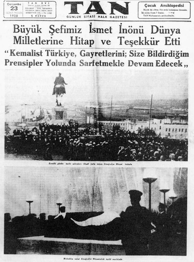 First page of Tan, 23 November 1938.